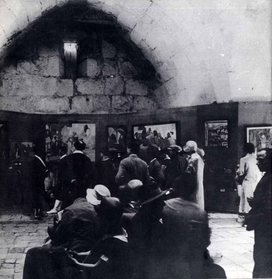 hebrew union of artists exhibition at the tower of david, 1924. the tower of david museum archive